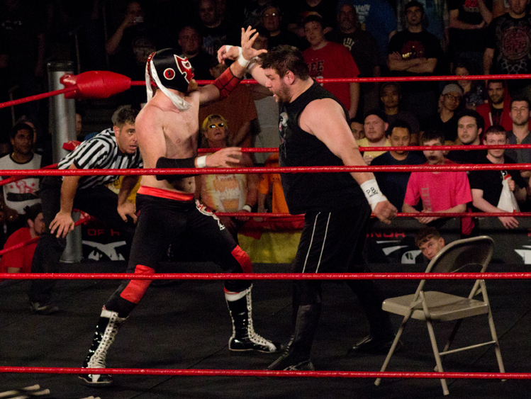 El Generico vs. Kevin Steen in a Last Man Standing match at Showdown in the Sun on March 30, 2012. Cropped from original.